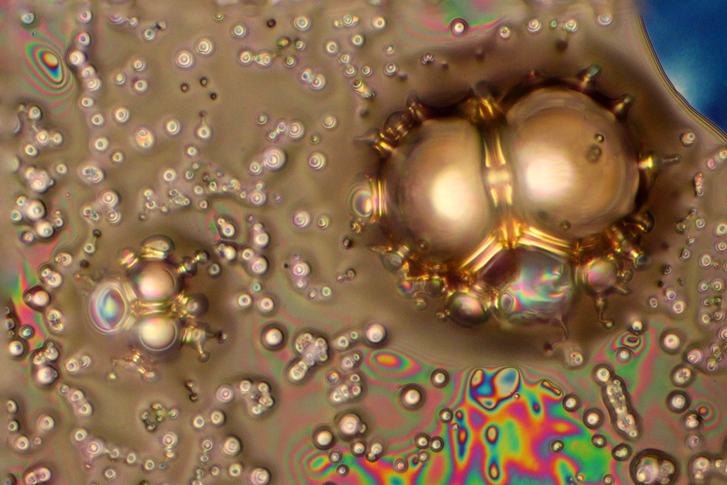 Decomposition of EMImBF4 ionic liquid at extreme voltages on a carbon electrode. Optical microscopy image, dimensions 800x600 micrometers.